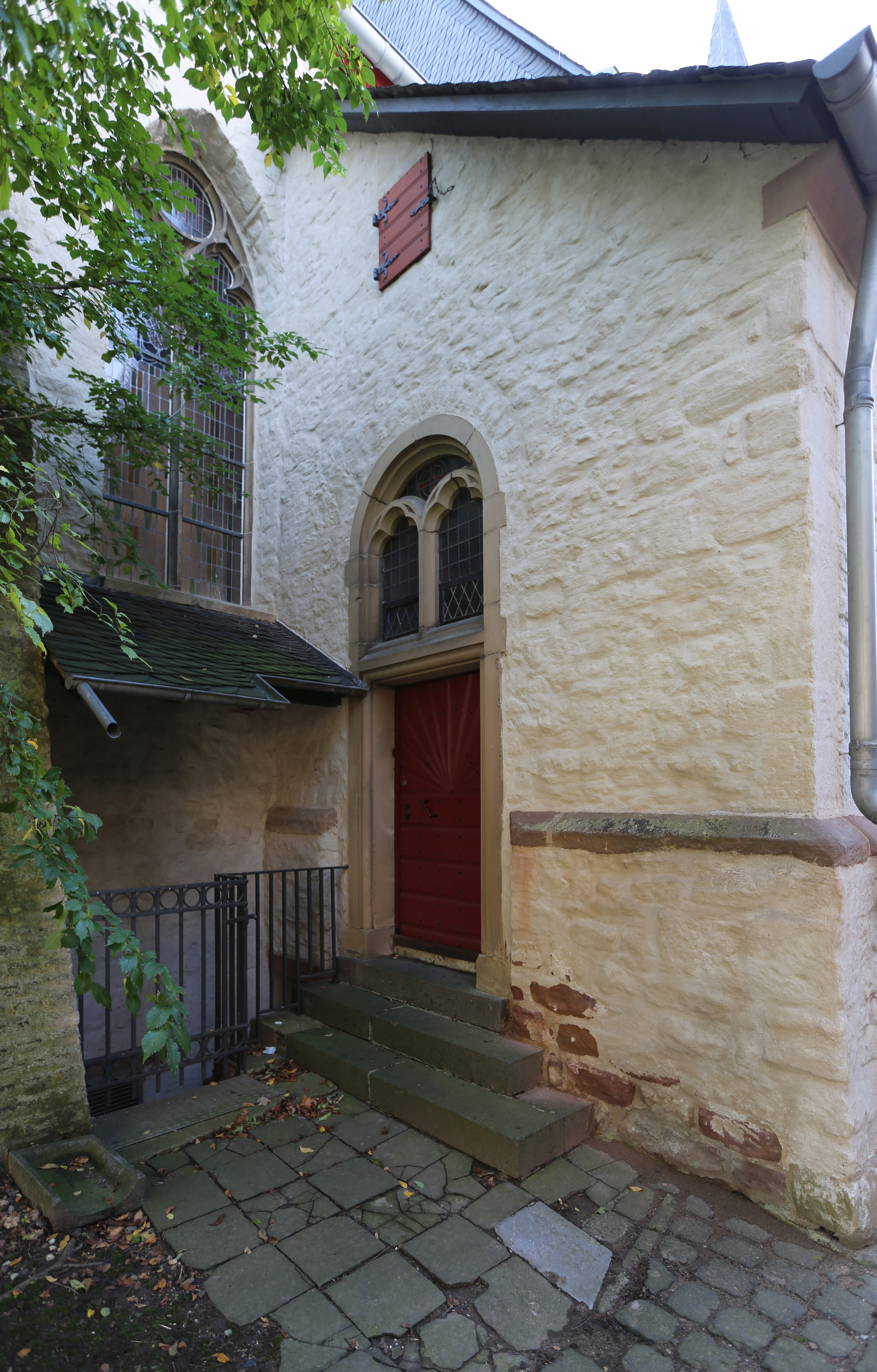 Medieval church St. Viktor, Hochkirchen, a quarter of Nörvenich, Germany